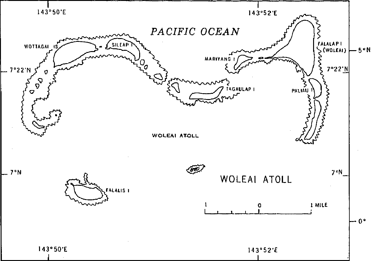 1970 census of the (former) Trust Territory of the Pacific Islands (now Federated States of Micronesia, Palua, and Marshall Islands) with several maps, including a map of Woleai Atoll, eastern Yap State